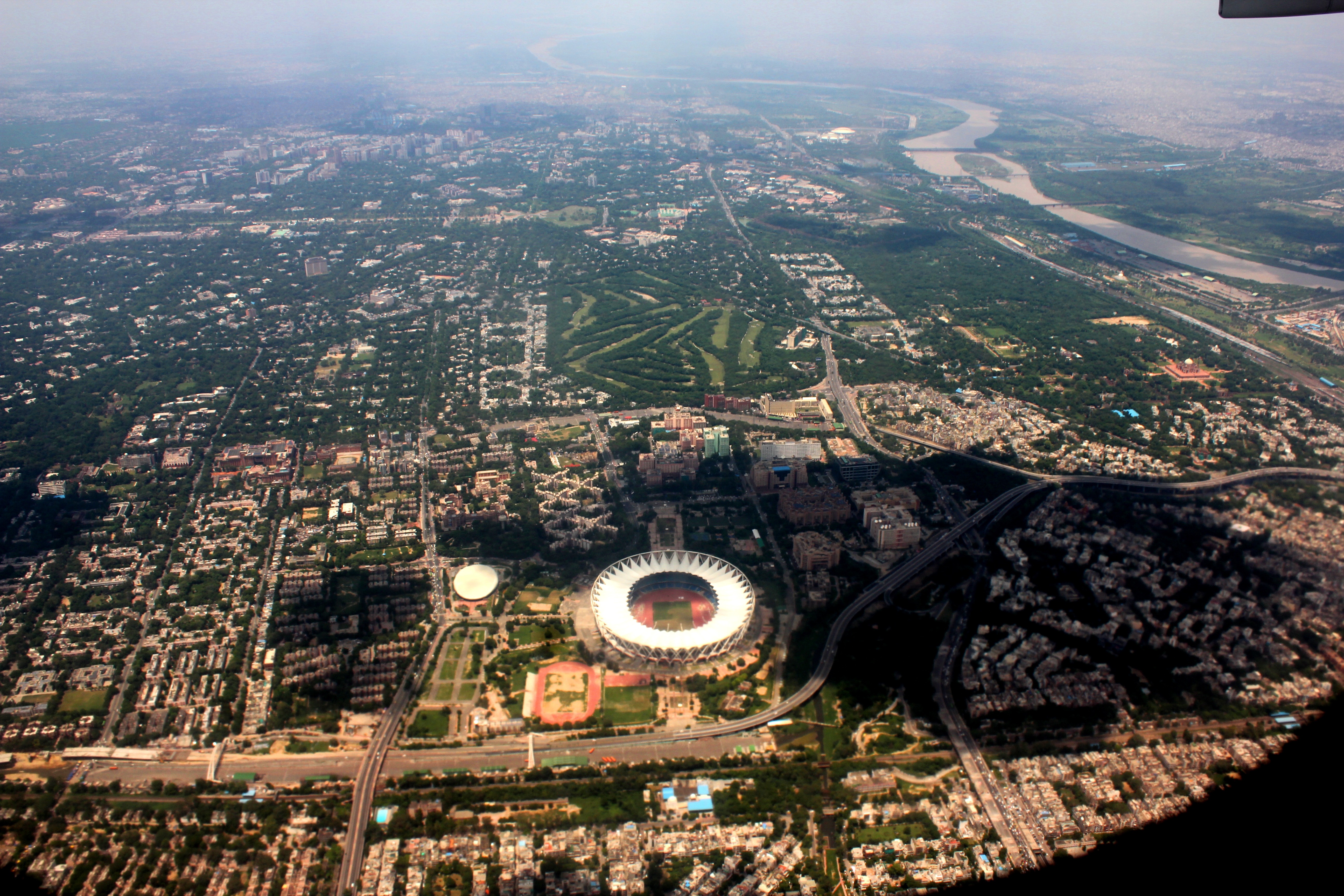 New Delhi aerial photo during travel to Chandigarh Mohali for Wikiconference India 2016 on 4th Aug 2016. You can read some annotations for buildings like India Gate or the Yamuna river in the photo, if you put the cursor over the photo above.